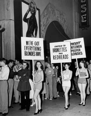 Staged Hollywood protest march publicizing the 1953 movie "Gentlemen Prefer Blondes"